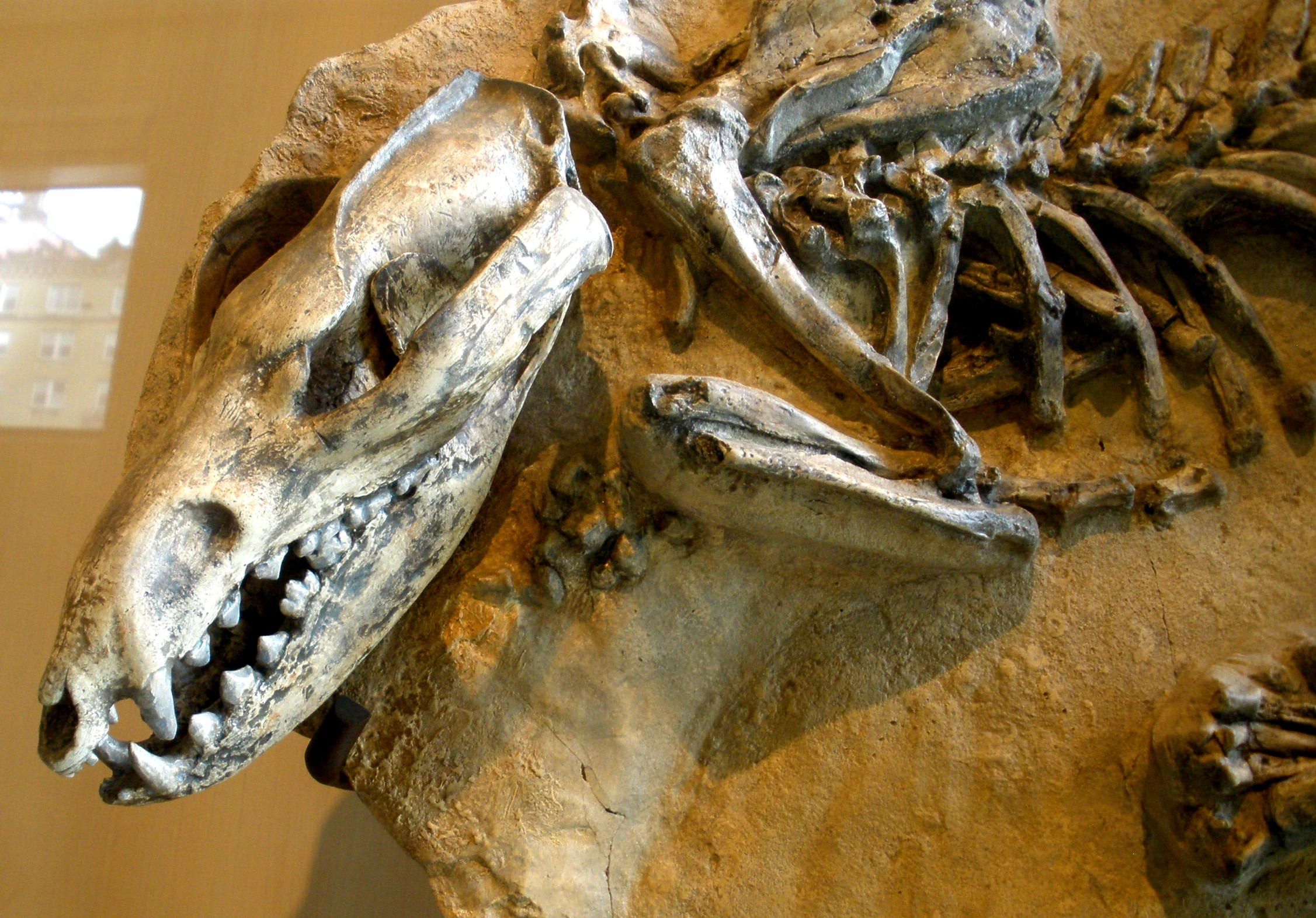 Part of skeleton of Lycopsis longirostris, a fossil marsupial